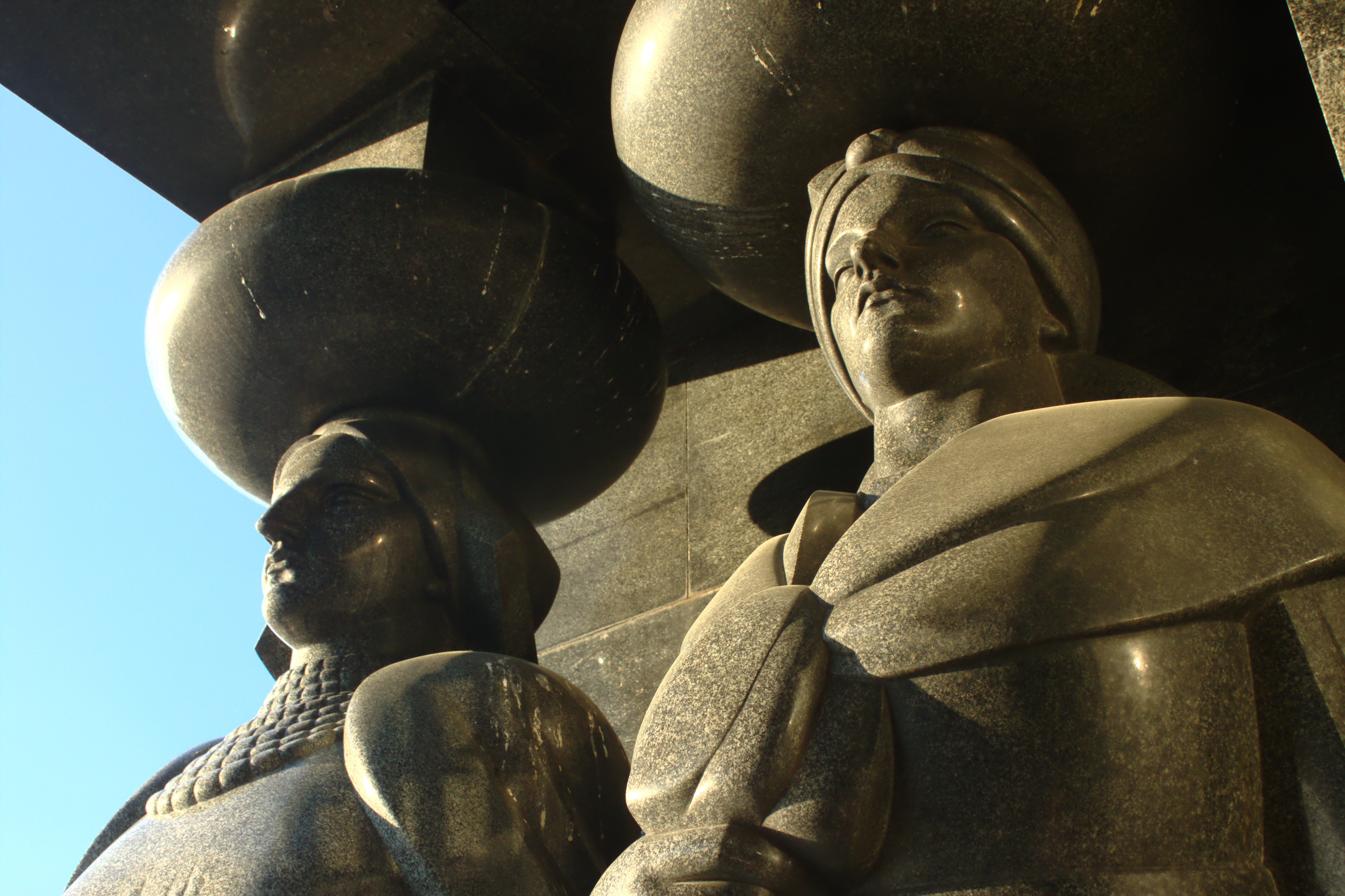 Statues supporting part of the memorial to the unknown soldier on Avala hill near Belgrade, Serbia